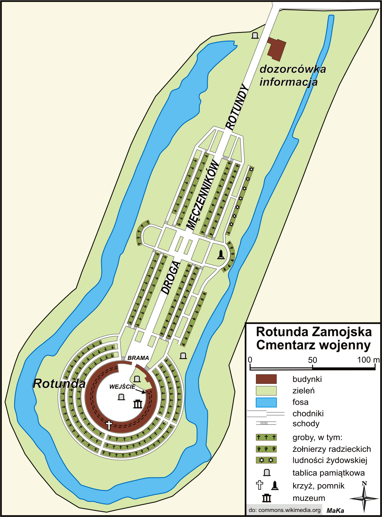 Plan of Rotunda in Zamość